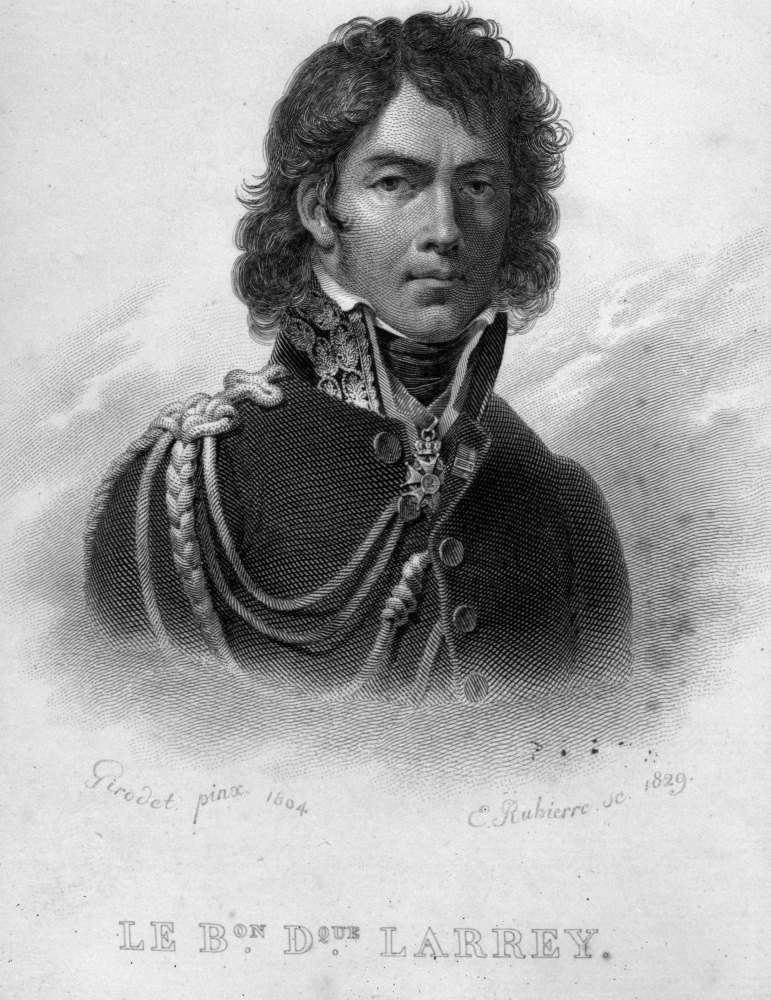 Dominique Jean Larrey (1766–1842), French surgeon and innovator in battlefield medicine.